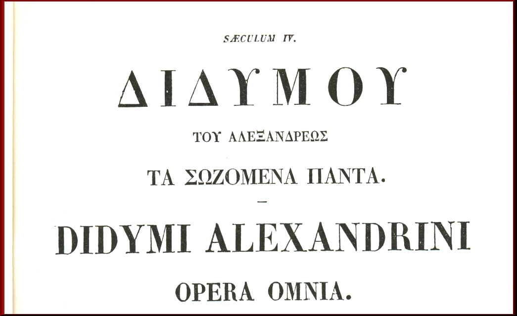 Title page, Patrologia Graeca 39, Paris 1858